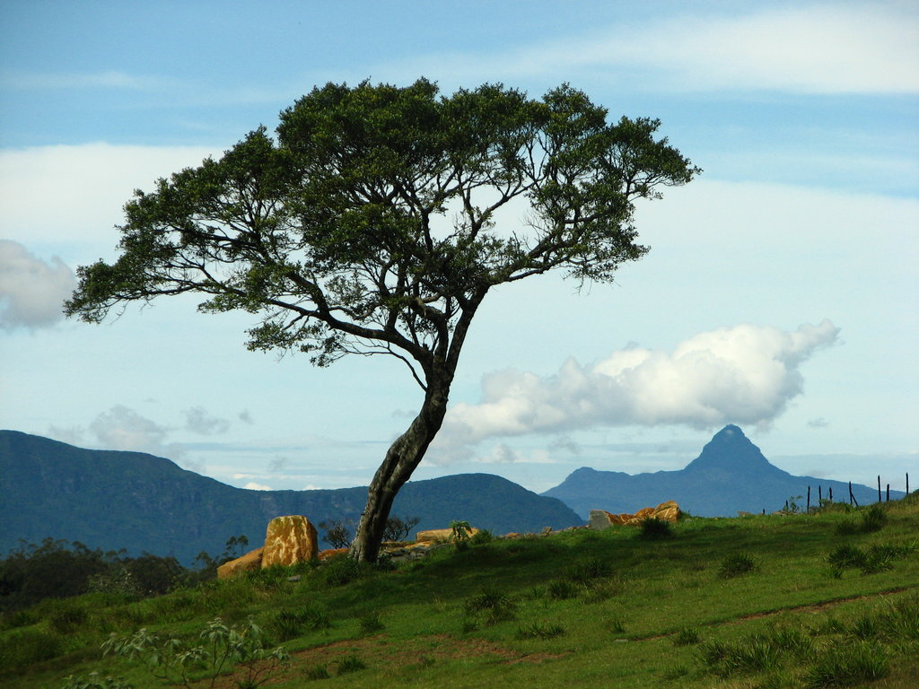 My uncle lived in an SLBC circuit bungalow to the right side of this place in Ambewela, and the grass fields beyond is where we used to play Cricket. The broadcasting station has now been converted to a youth training center.